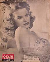 Pin-up photo of K. T. Stevens for the Jun. 25, 1944 issue of Yank, the Army Weekly, a weekly U.S. Army magazine fully staffed by enlisted men.